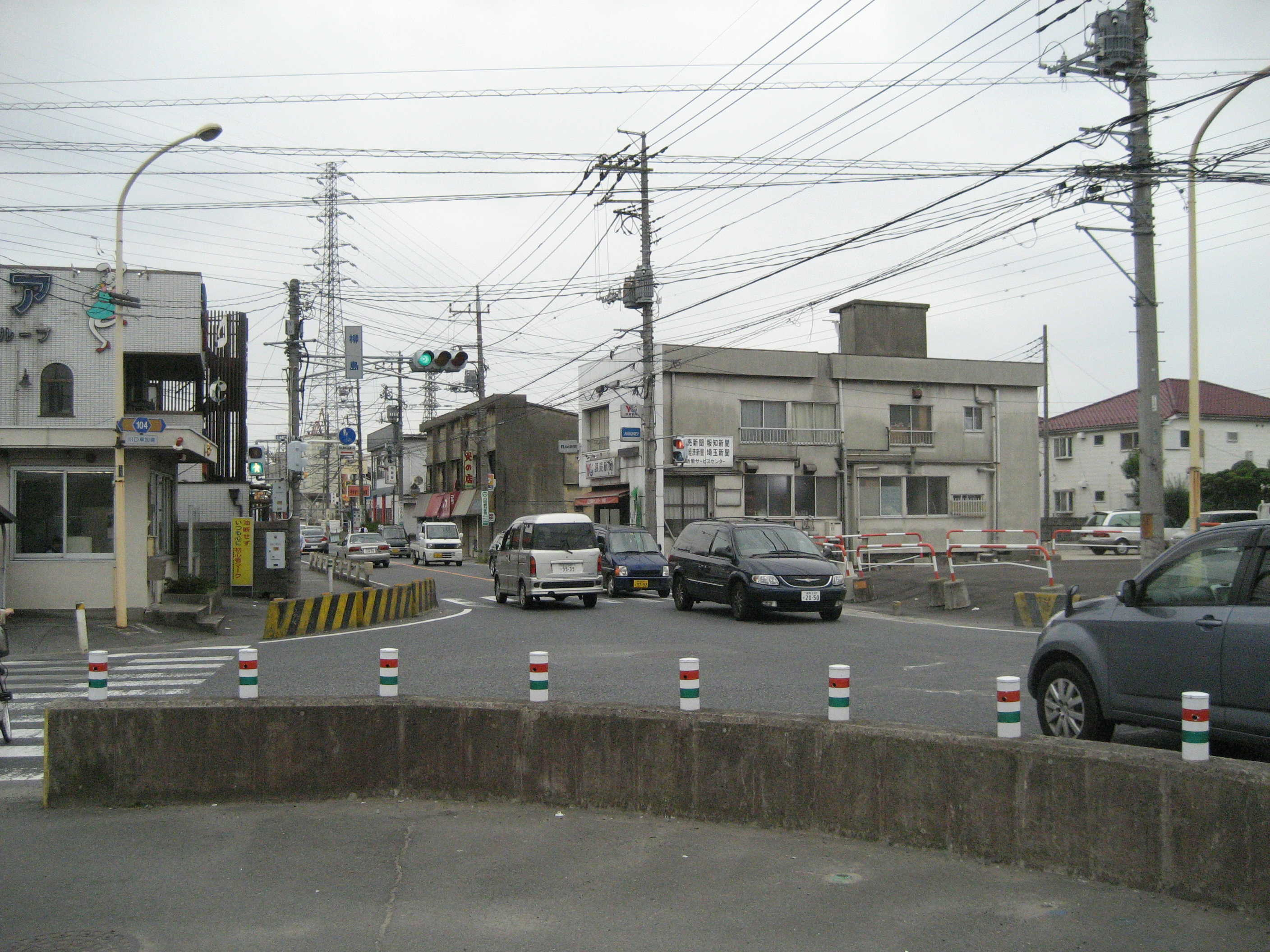 The Yanagishima Intersection of the Saitama Prefectural Road Route 103 and the Route 104 in Soka City